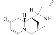 Albine structure